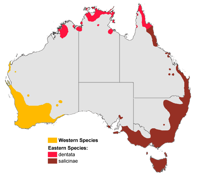 Australian distribution of the genus Banksia